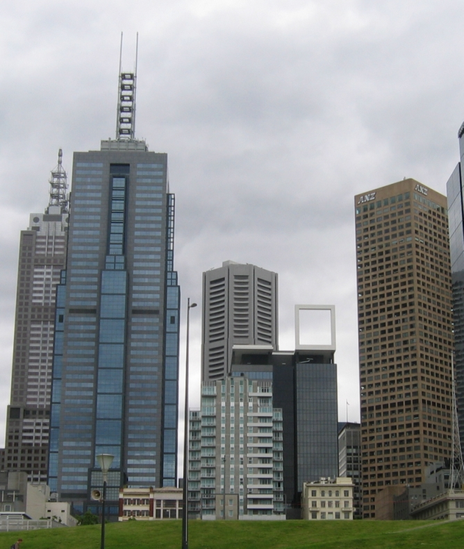 101 Collins street, second tallest skyscraper in Melbourne.